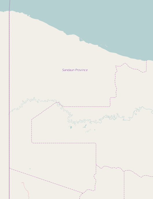 Map of Sandaun Province, Papua New Guinea. Geographic limits of the map: N: -2.44° S: -5.46° W: 140.86° E: 143.19°